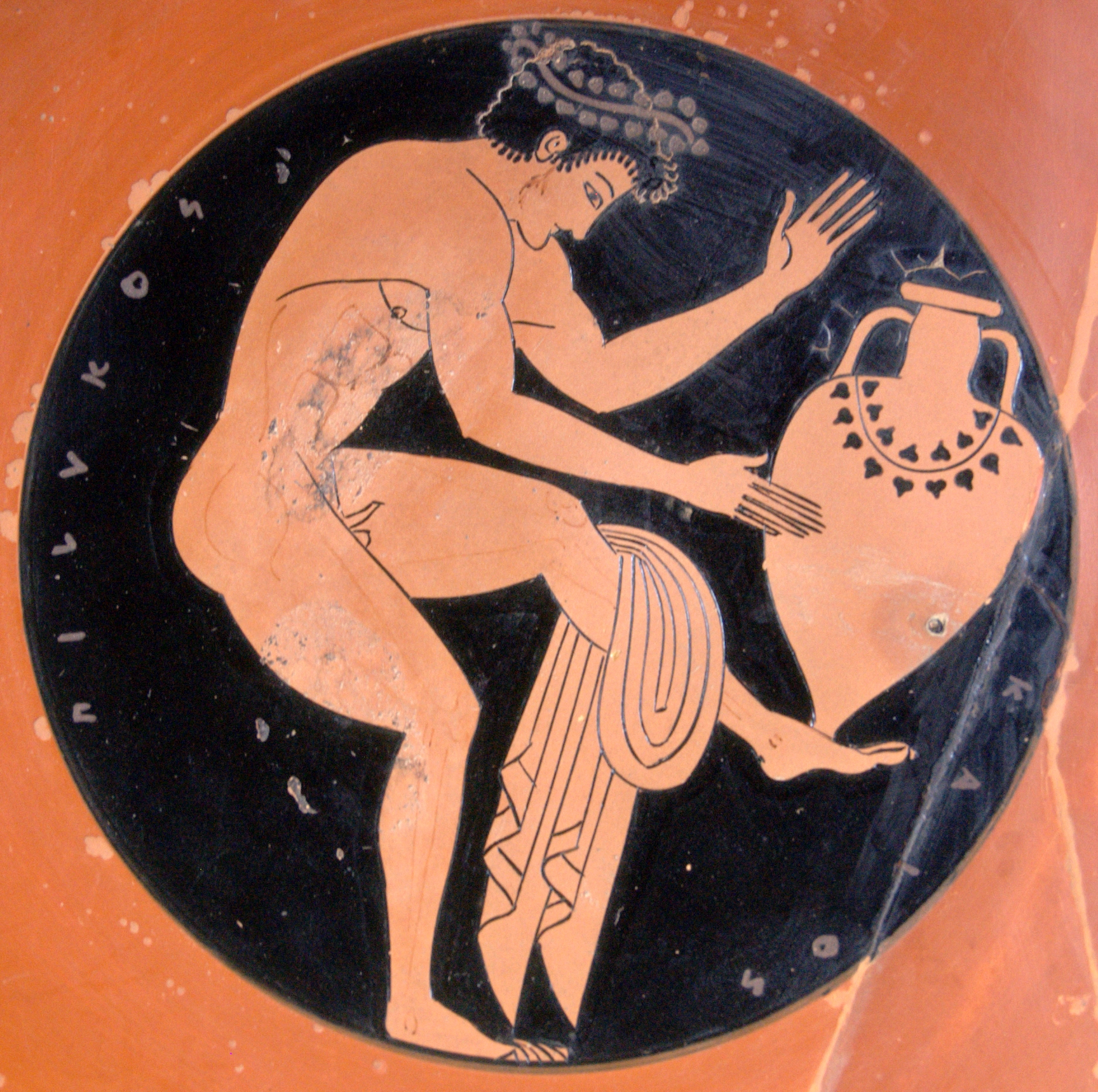 Komast. Coral red-figure tondo from an Attic bilingual kylix.